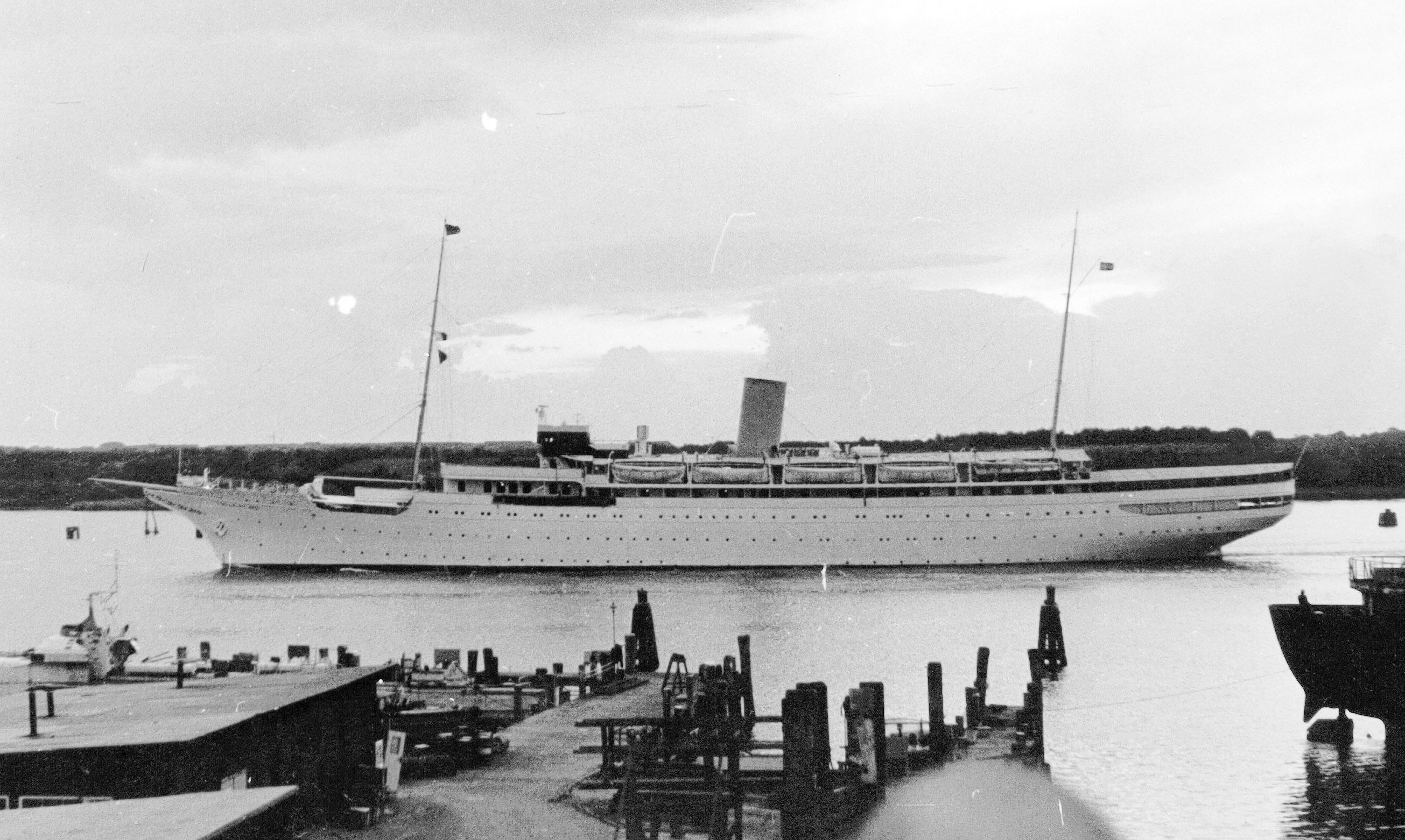 Swedish cruise ship Stella Polaris in the Kiel Canal in 1965